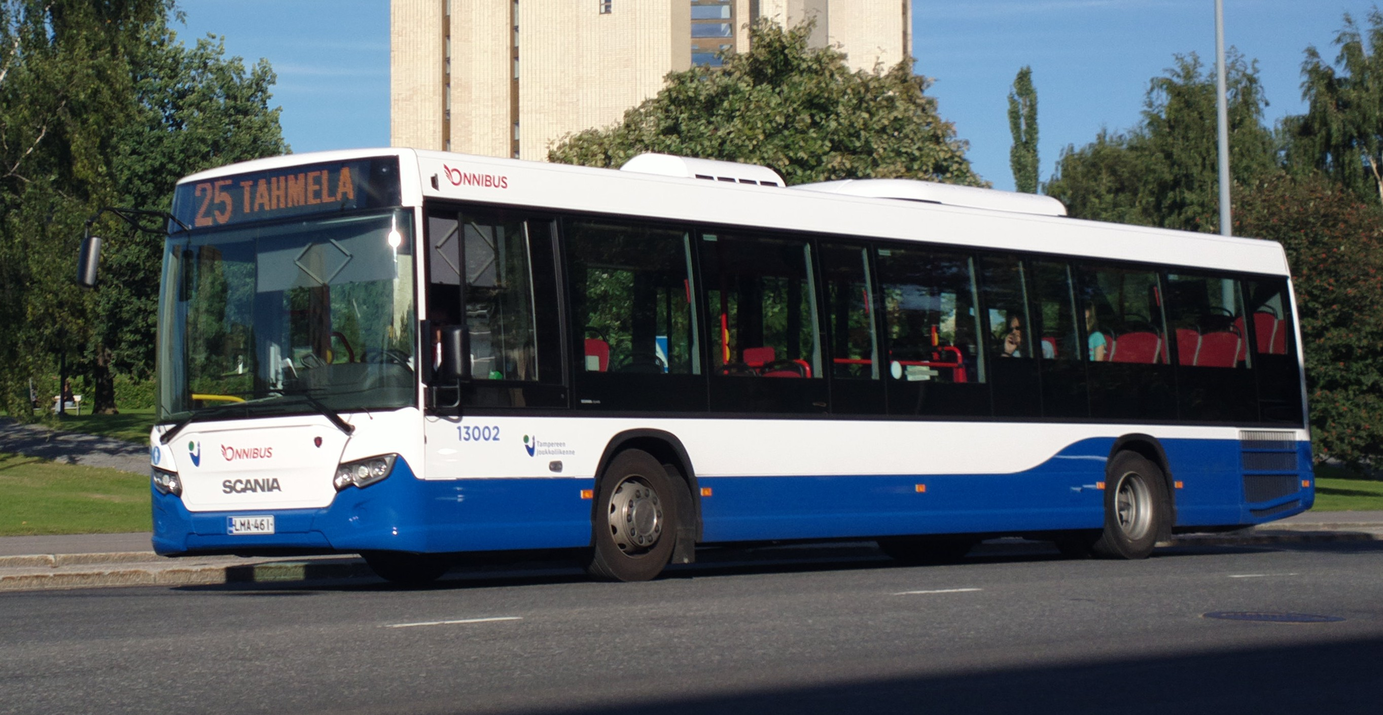 Tampere city bus line 25 operated by Onnibus Oy